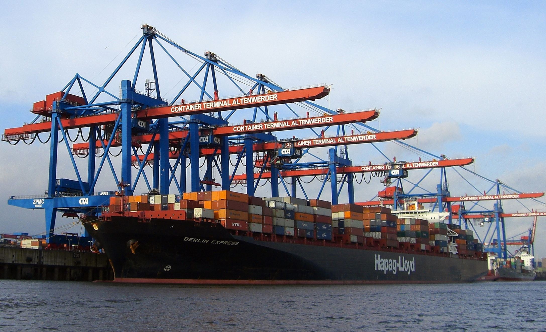 Container Ship Berlin Express, Terminal Altenwerder, Port of Hamburg